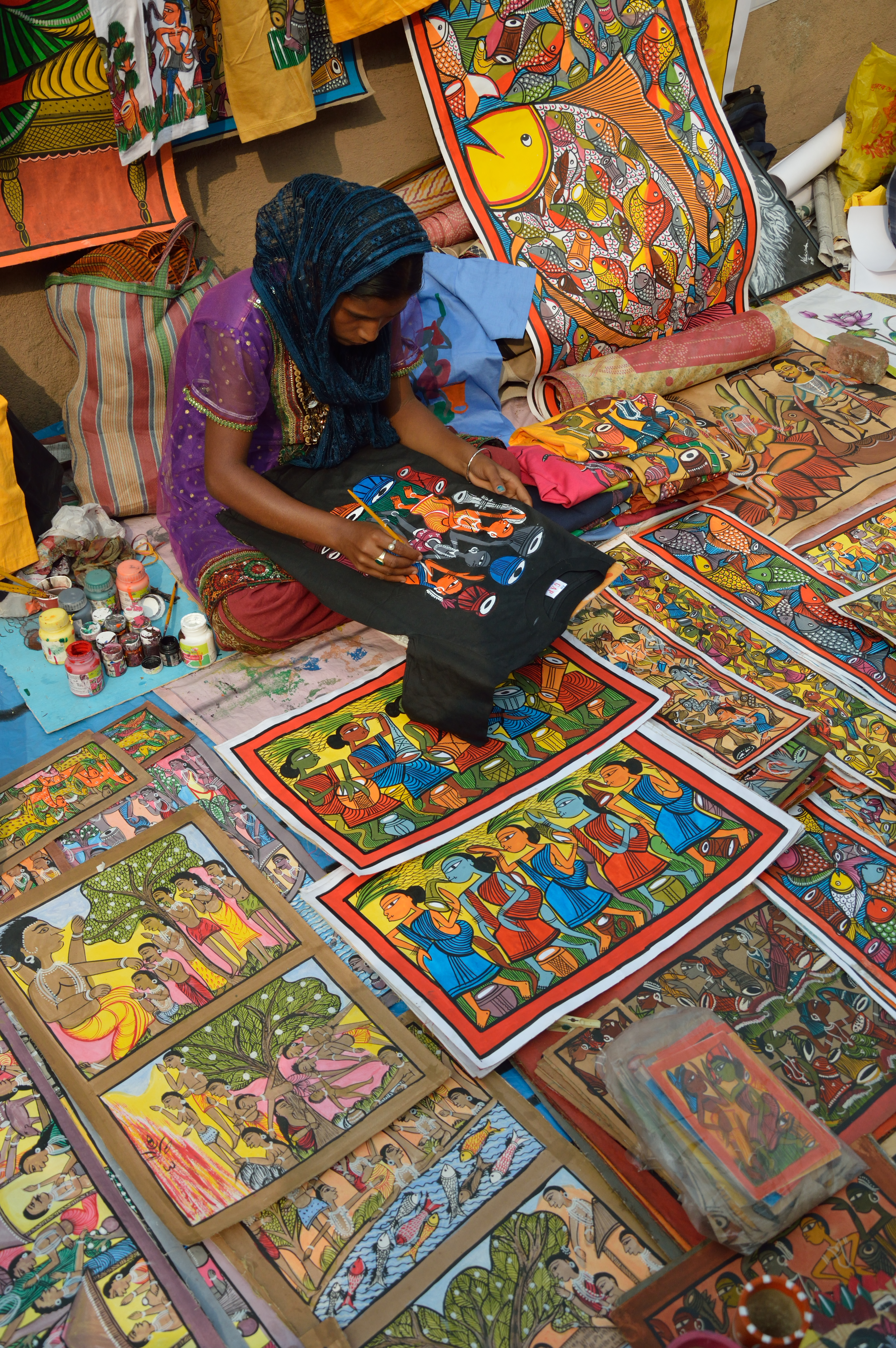 The International Kolkata Book Fair (Old name: Calcutta Book Fair in English, and officially Kolkata Boimela or Kolkata Pustakmela in romanized Bengali), is a winter fair in Kolkata. It is a unique book fair in the sense of not being a trade fair - the book fair is primarily for the general public rather than whole-sale distributors. It is the world's largest non-trade book fair, Asia's largest book fair and the most attended book fair in the world. The fair took place at ‘Milan Mela’ ground, opposite of ‘Science City’, Kolkata.